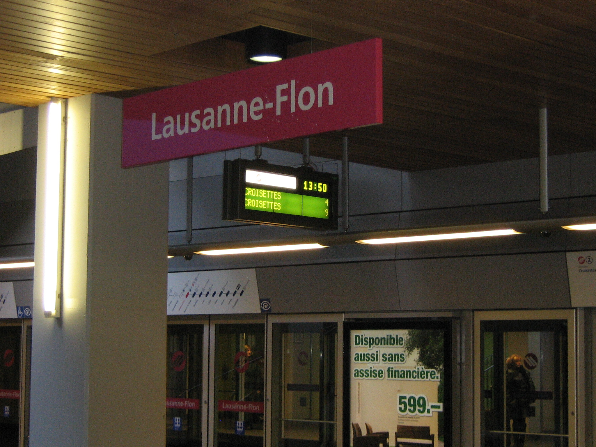 Metro m2 Station-name panel and display in Lausanne-Flon railway station.